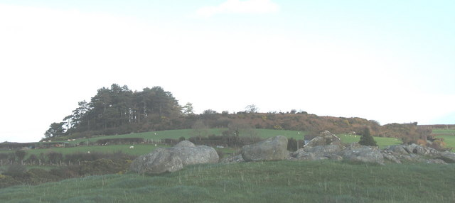 Dinas Dinorwig Iron Age Fort